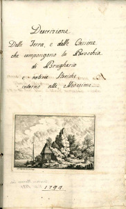 Frontispiece of Paolo Antonio De Petri - Priest at Saint_Bartholomew,_Brugherio - published 1794